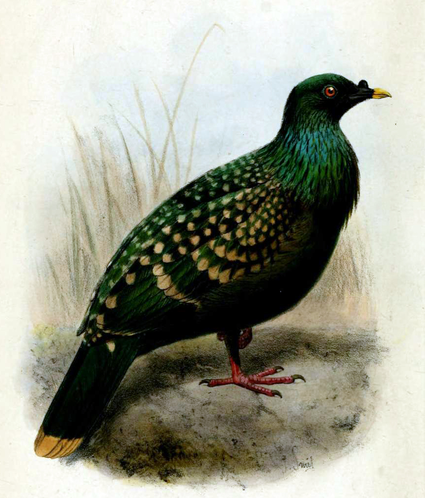 Caloenas maculata ("Liverpool Pigeon"), incorrectly depicted with a knob on its bill.